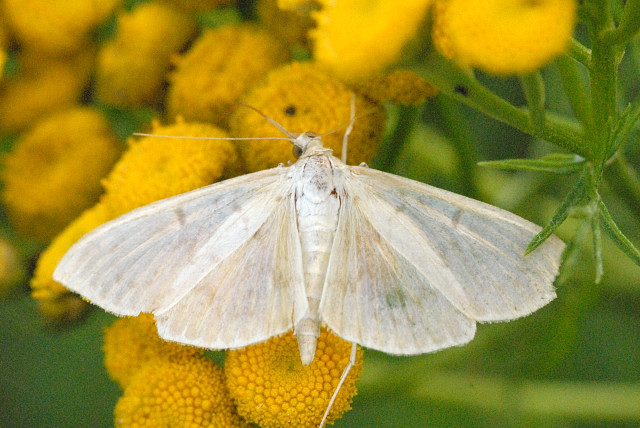 Picture taken in Commanster, Belgian High Ardennes . Species: Phlyctaenia perlucidalis